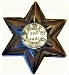 Gwalior Star for Battle of Punniar, obverse. 1843